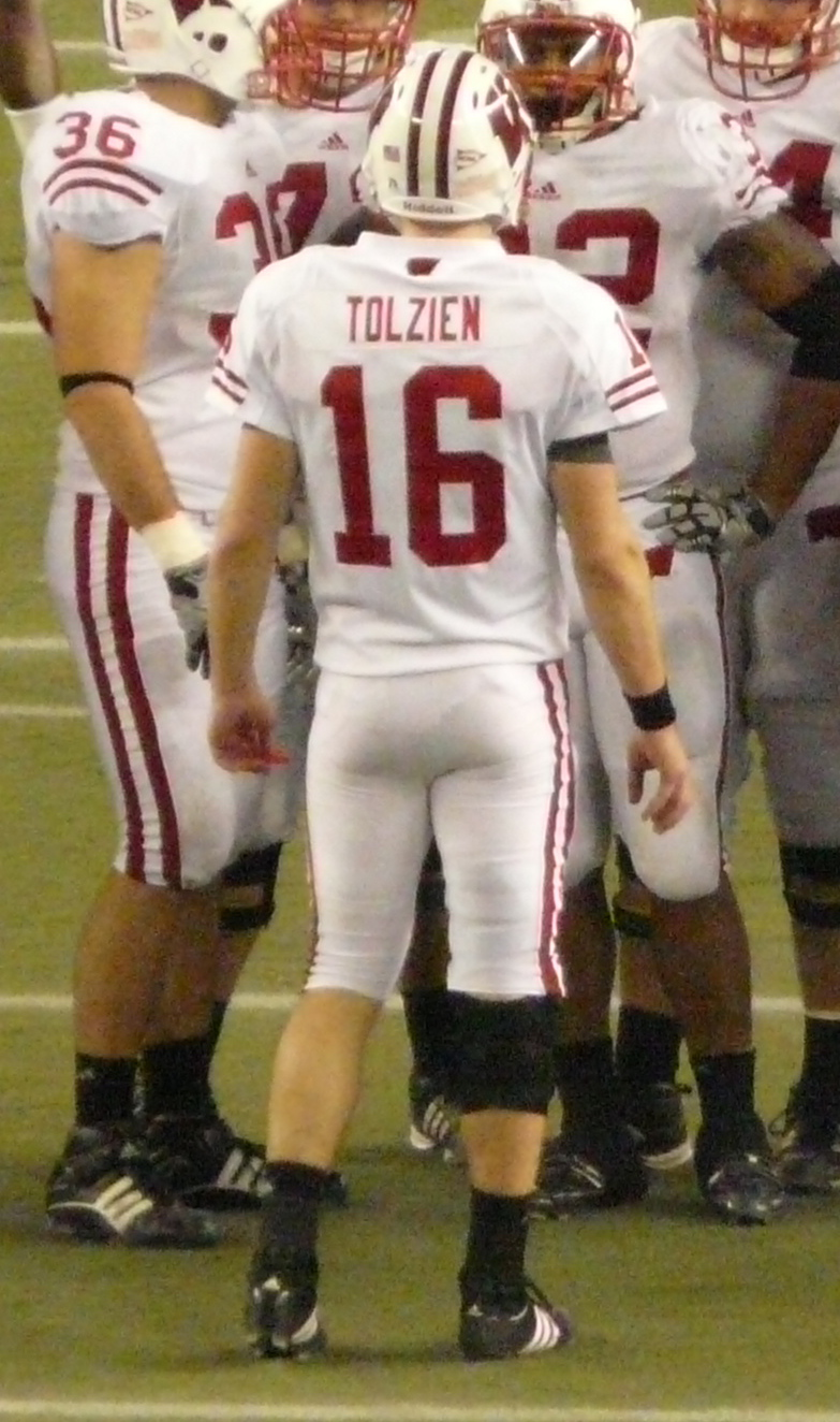 Wisconsin Badgers vs the Hawaii Warriors, 2009.